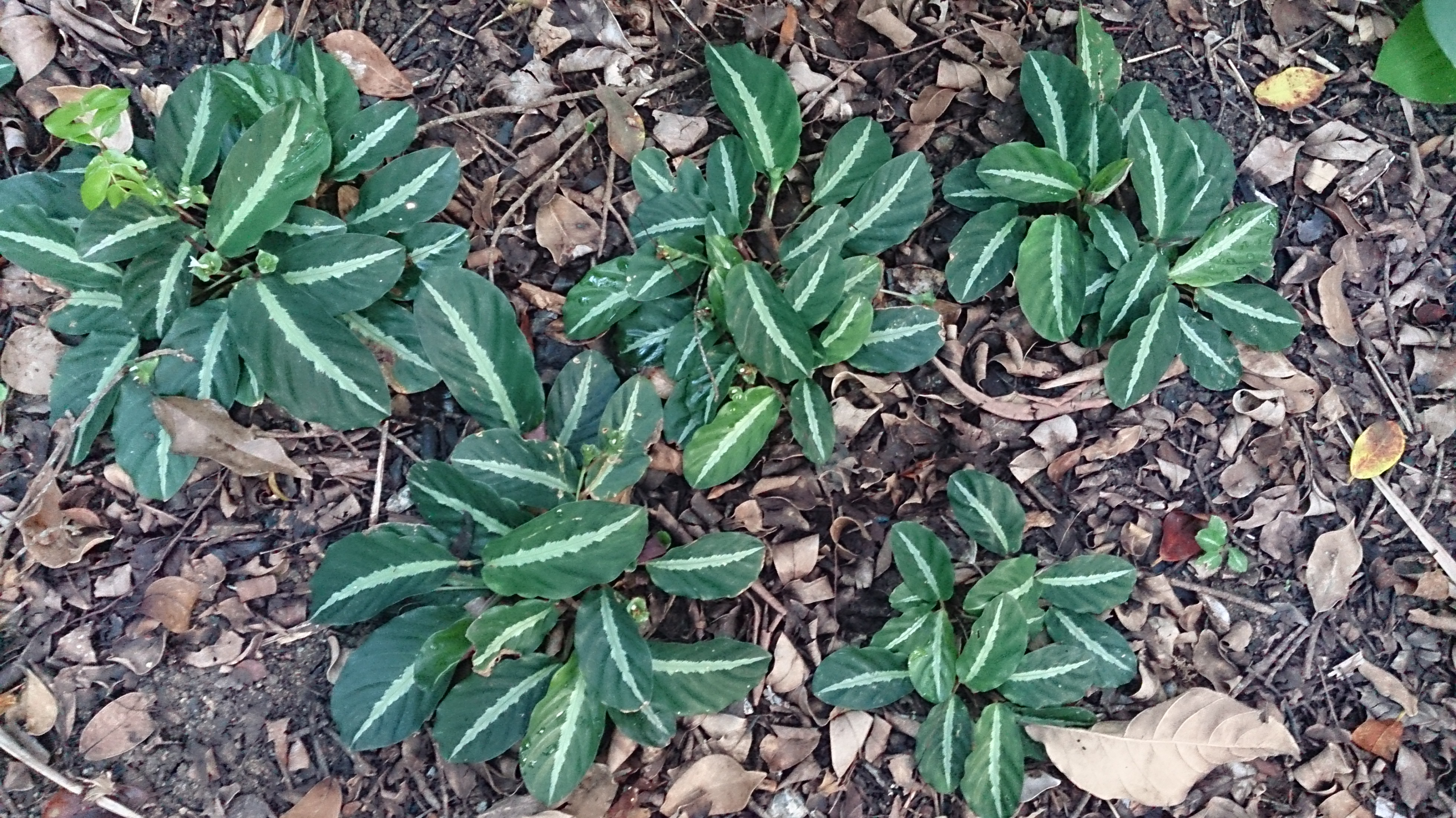 Calathea undulata. This very small species hardly exceeds 30 cm in height & occurs naturally in the forests of Peru and Brazil. The metallic dark green leaves with a silver patch on the midrib resemble the even smaller C. micans. Both the C. undulata and C. micans make good ground cover in damp shaded places.